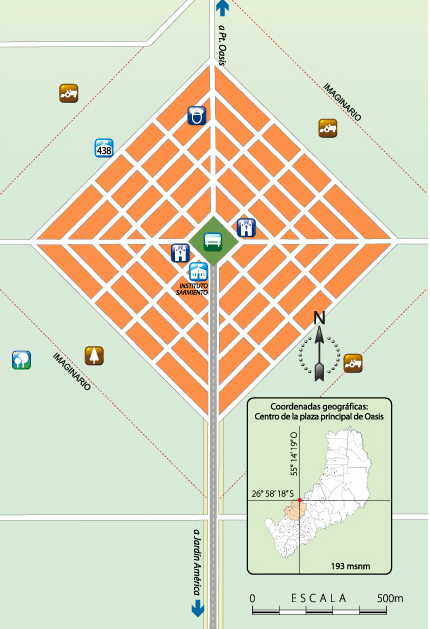 A map of Oasis town, a Jardín América's municipio in Misiones province, Argentina.